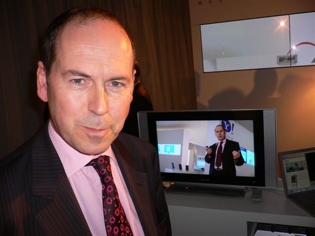 Rory Cellan-Jones on 16 November 2006.